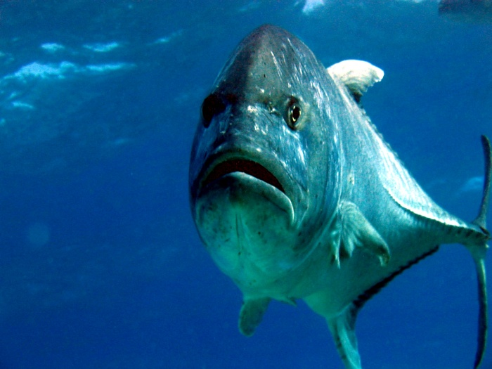 reef0613, NOAA's Coral Kingdom Collection. Northwest Hawaiian islands. A giant trevally seen head on, displaying compressed body